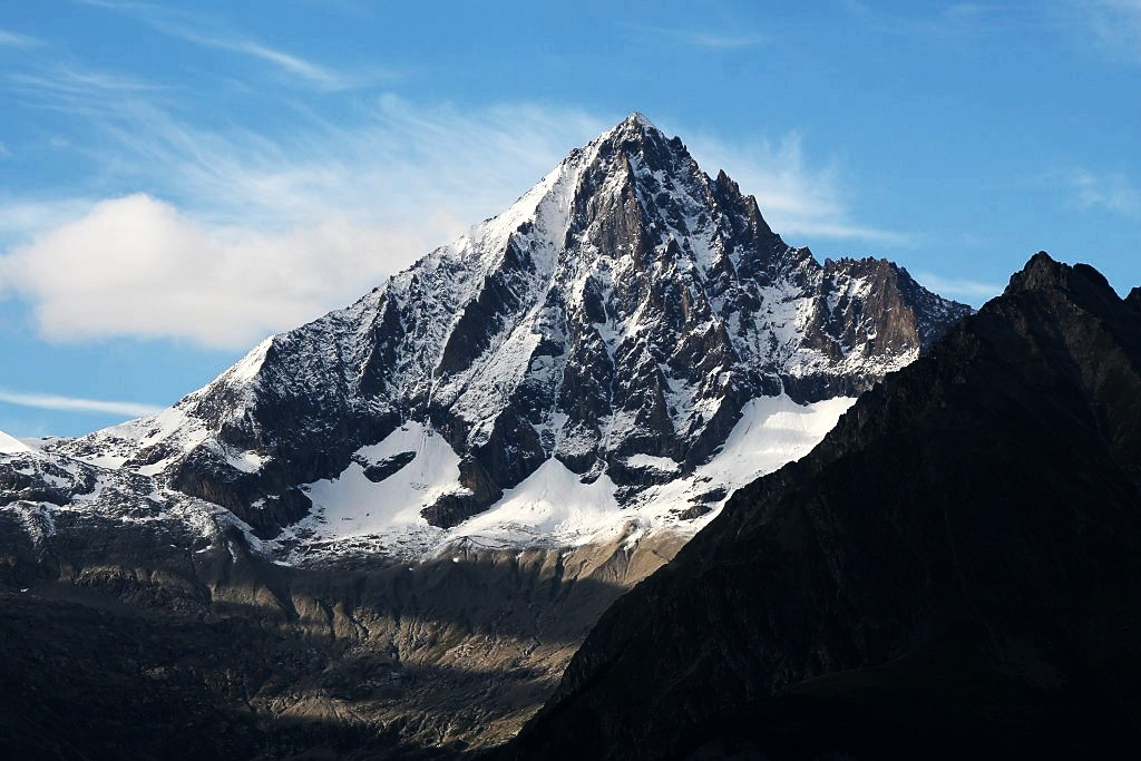 South wall of Bietschhorn